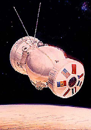 An artist's concept of a Cosmos satellite in orbit. NASA's description page lists the bion satellites from Bion 3 to Bion 9 (spanning 1975 to 1989). I do not know why the others are not mentioned.